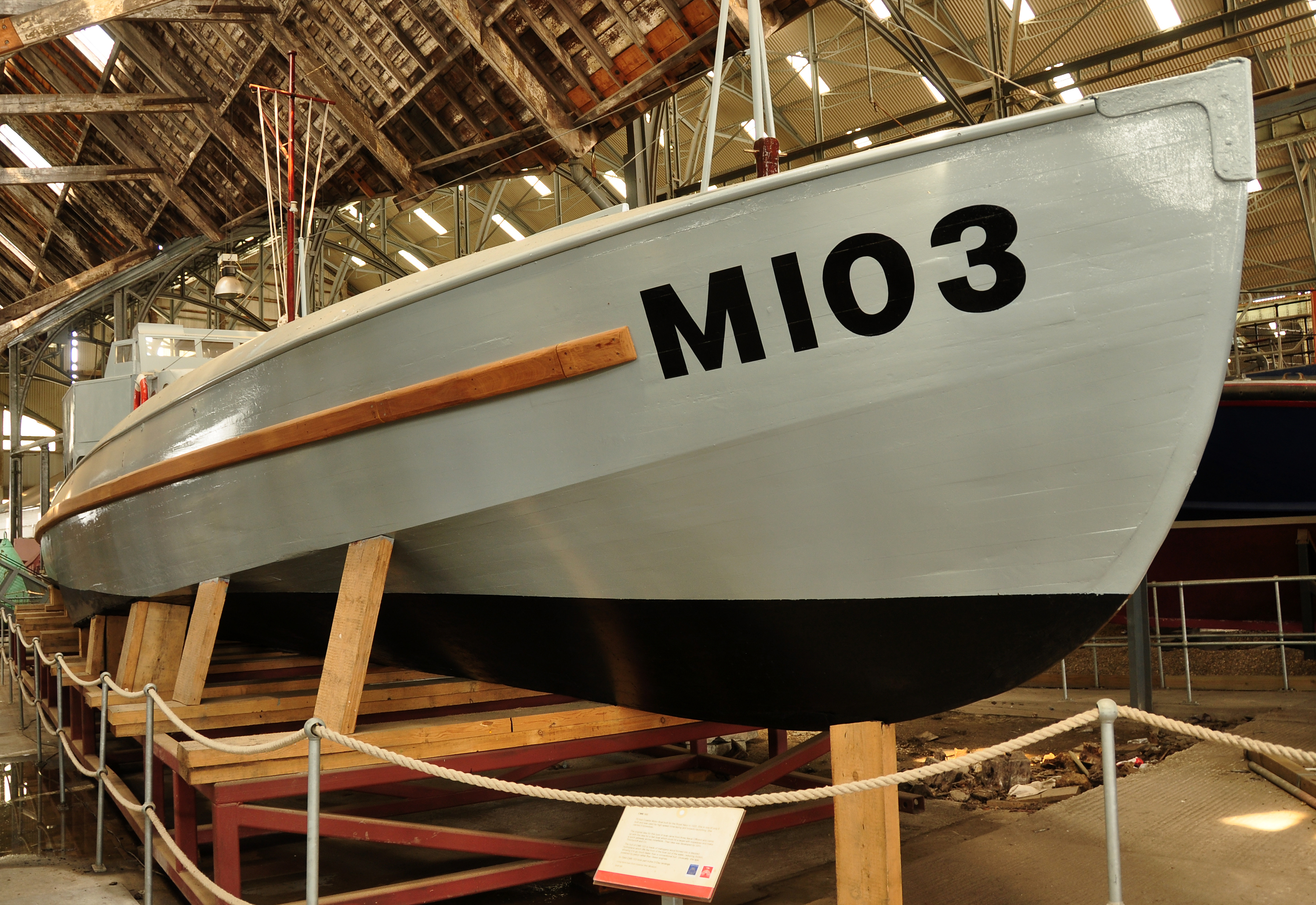 Coastal Motor Boat M103 at Chatham Dockyard, Kent.